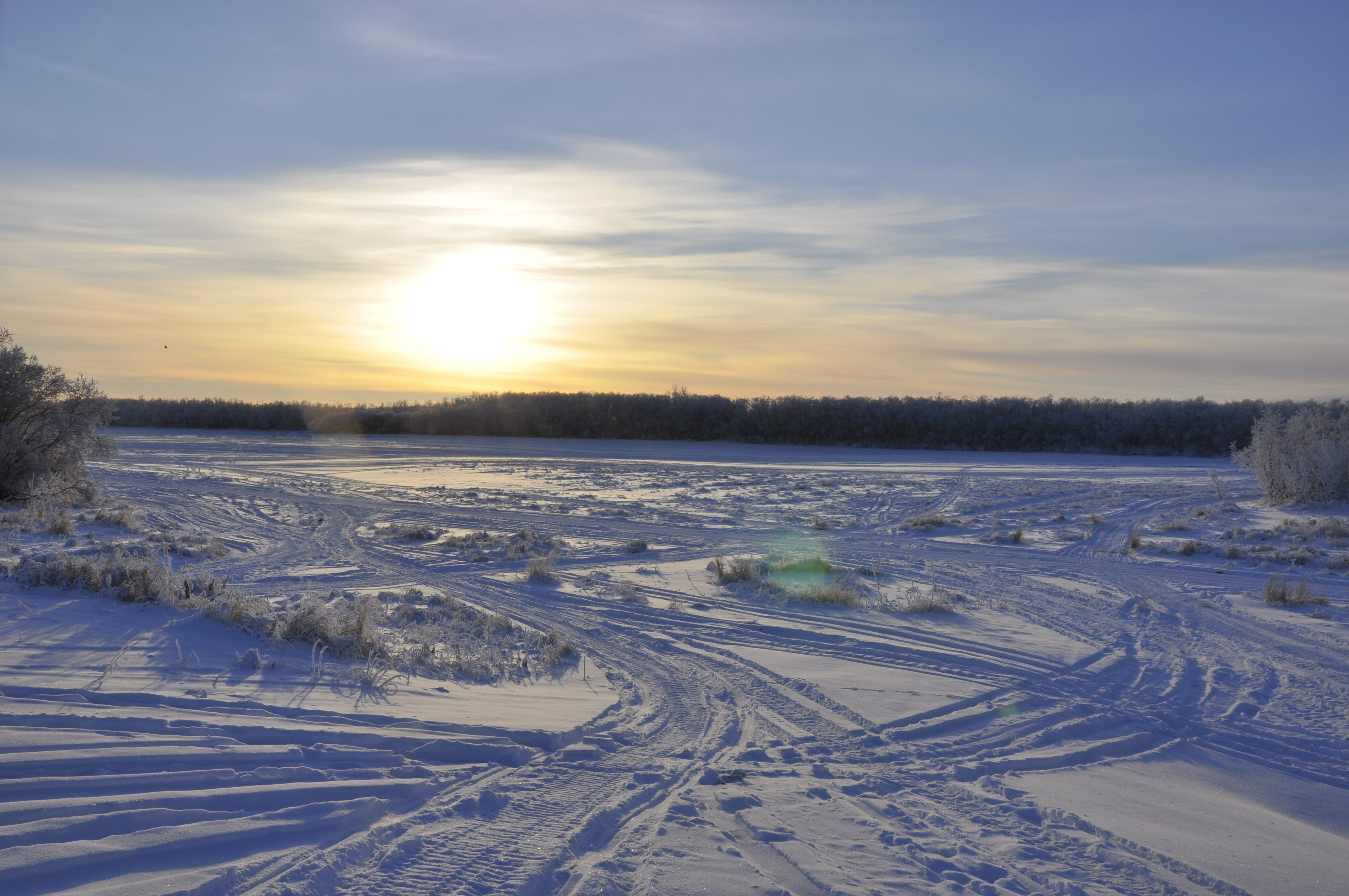 Ice road in Akiachak, AK.